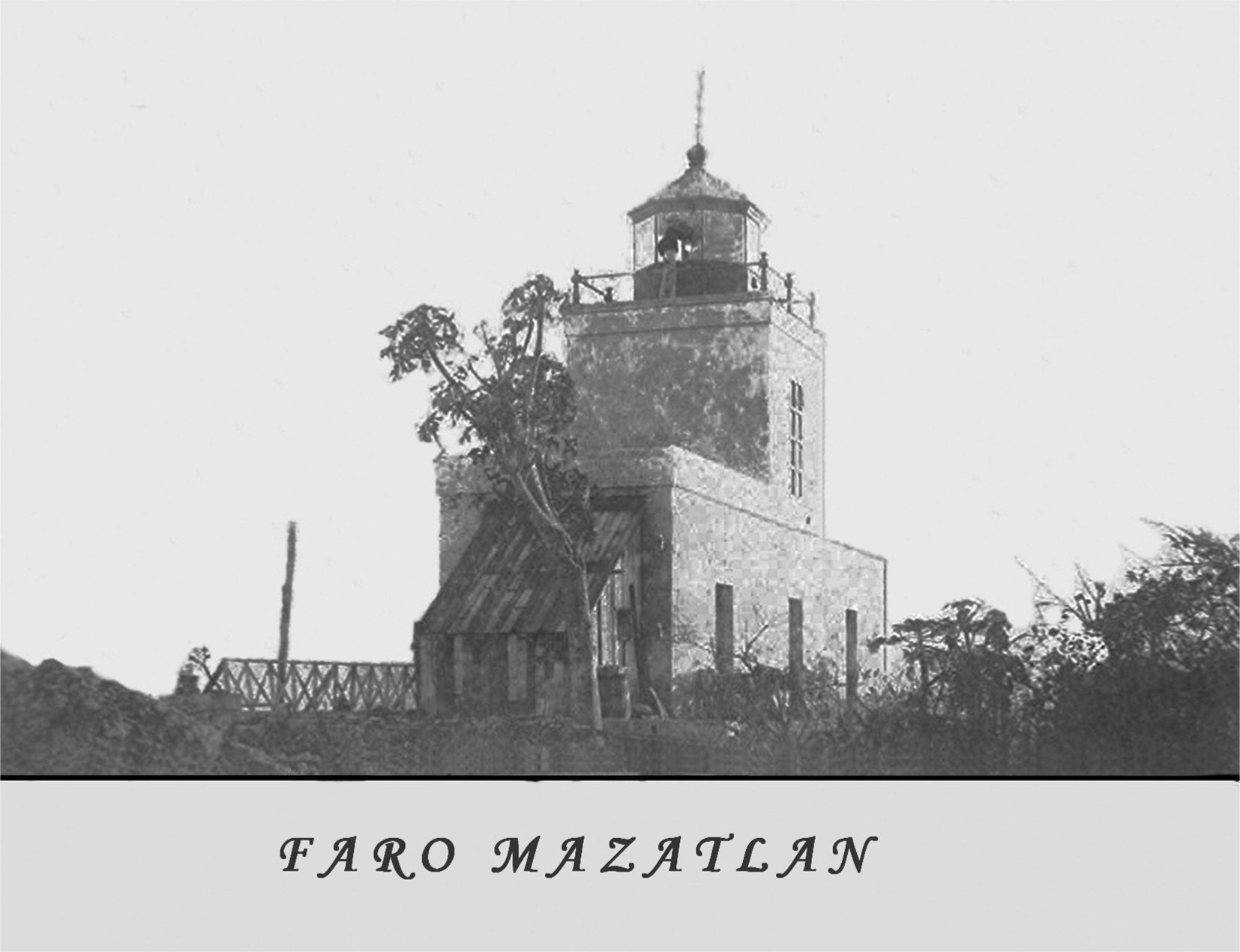 Mazatlán Antiguo